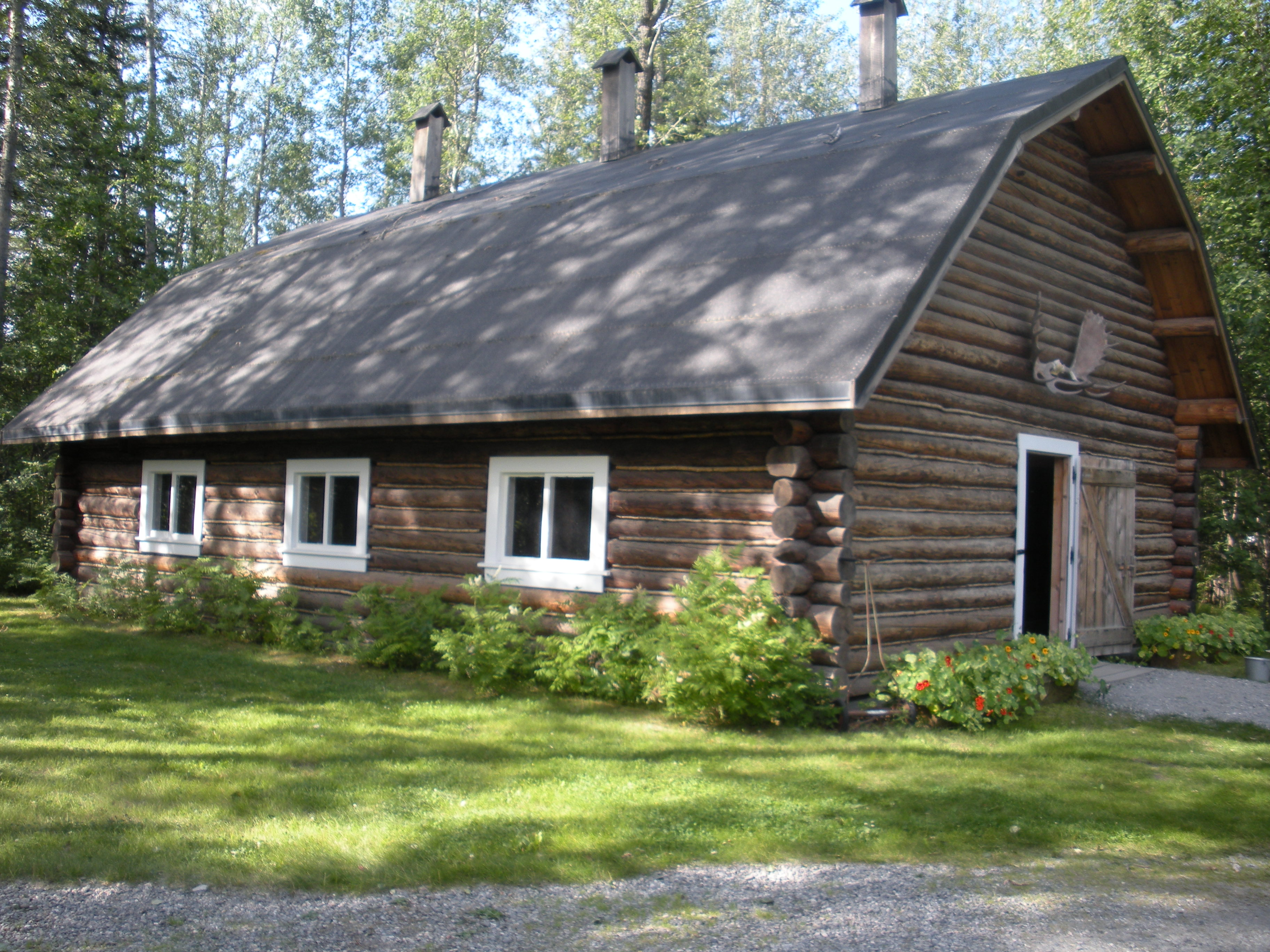 Rika's Landing Roadhouse, a roadhouse on the National Register of Historic Places in Southeast Fairbanks Census Area, Alaska, United States. It is located at mile 252 of the Richardson Highway in Big Delta at a historically important crossing of the Tanana River. It is in the Big Delta State Historical Park and is NRHP Building #76000364, added 1976. The roadhouse is named after Rika Wallen. This particular view is of the associated stable where Rika raised livestock